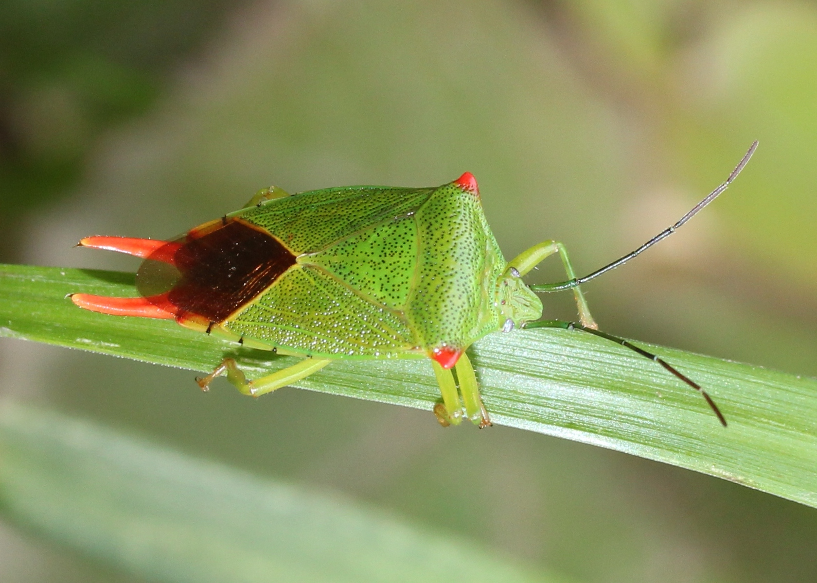 Male of Acanthosoma labiduroides in Mount Nōgōhaku, Motosu, Gifu prefecture, Japan.